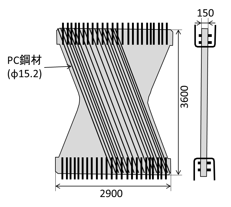 Dimension and Structure of Butterfly Web for Shin-Meishin Mukogawa Bridge.